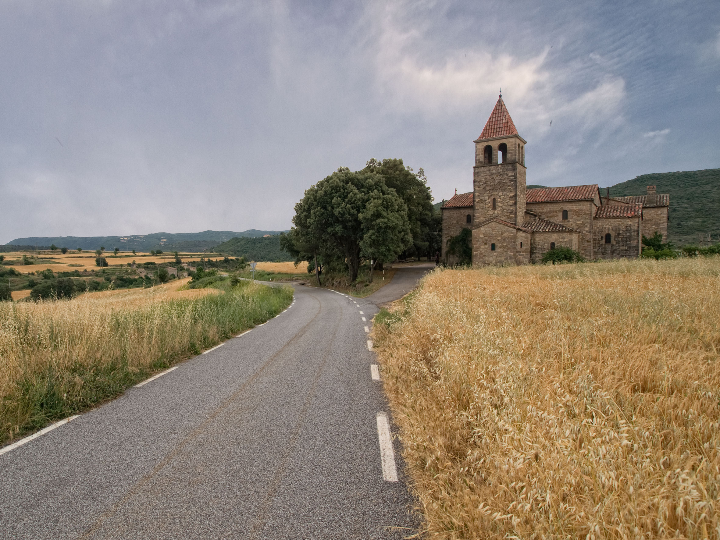 Sant Andre church of Aguilar de Segarra (Catalonia, Spain)